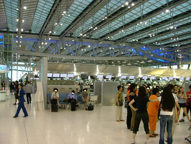 Suvarnabhumi Airport Bangkok - hall.